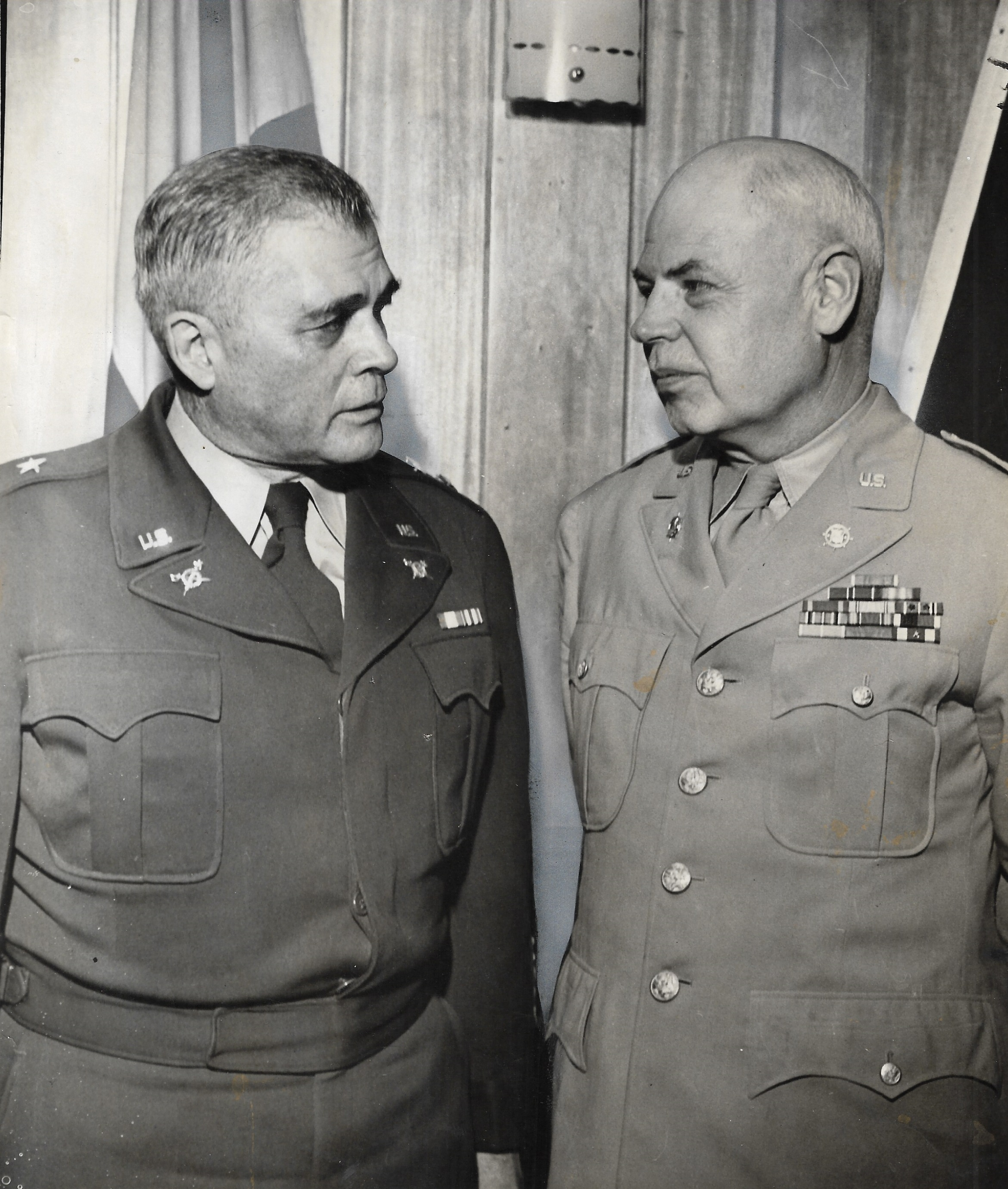 Major General Louis A. Craig was a US Army officer who served as Inspector General of the United States Army.